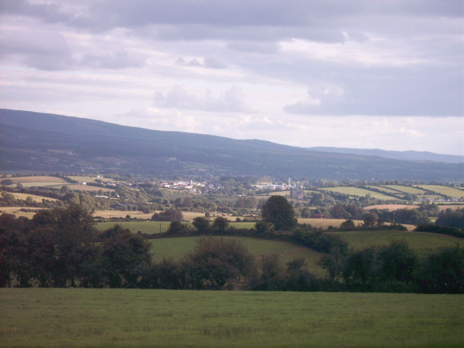 Scarriff, from a nearby hill. The chipboard factory, slightly to the right of the centre of the photo, is the most prominent feature of the town.